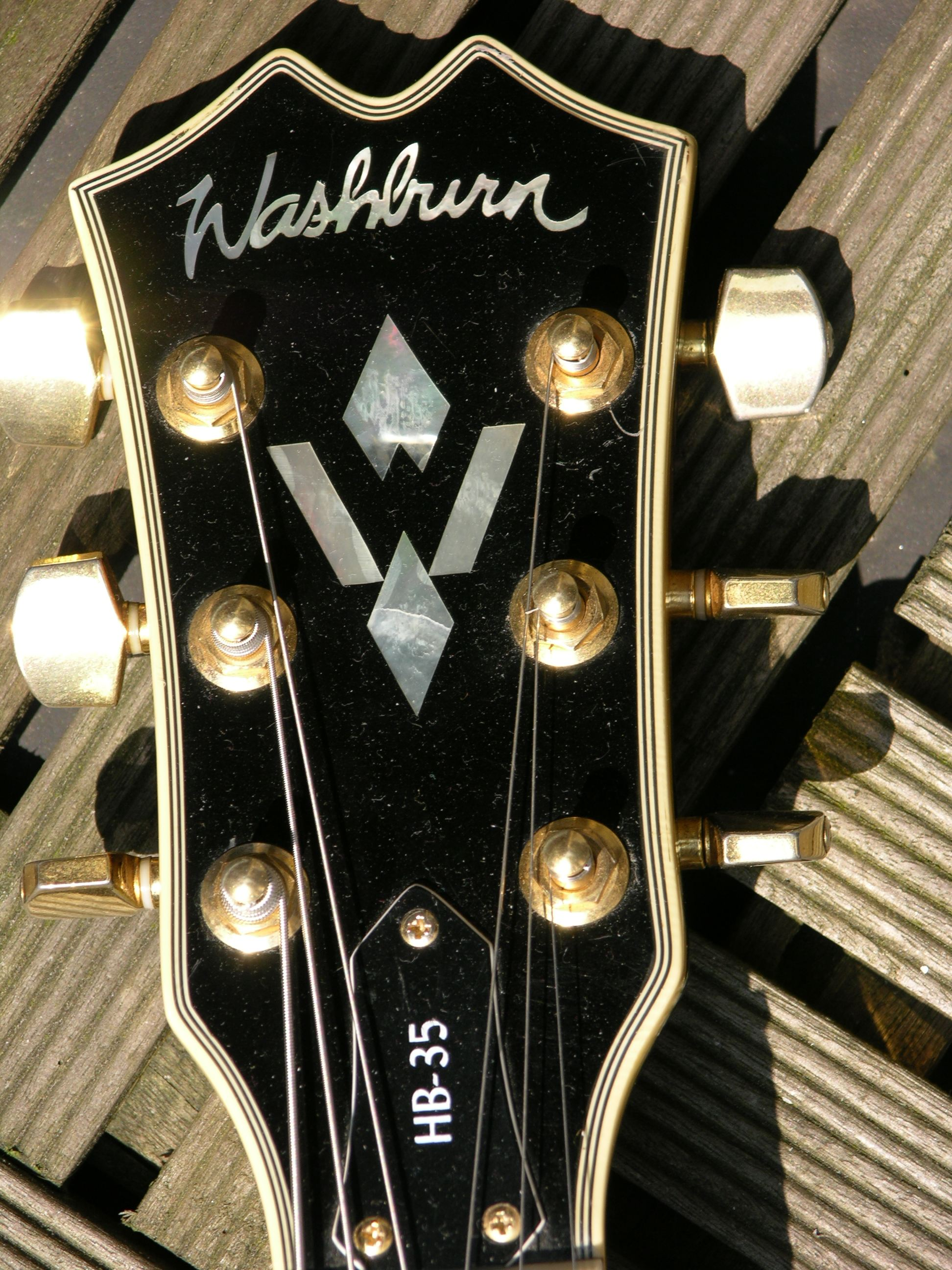 Washburn HB35